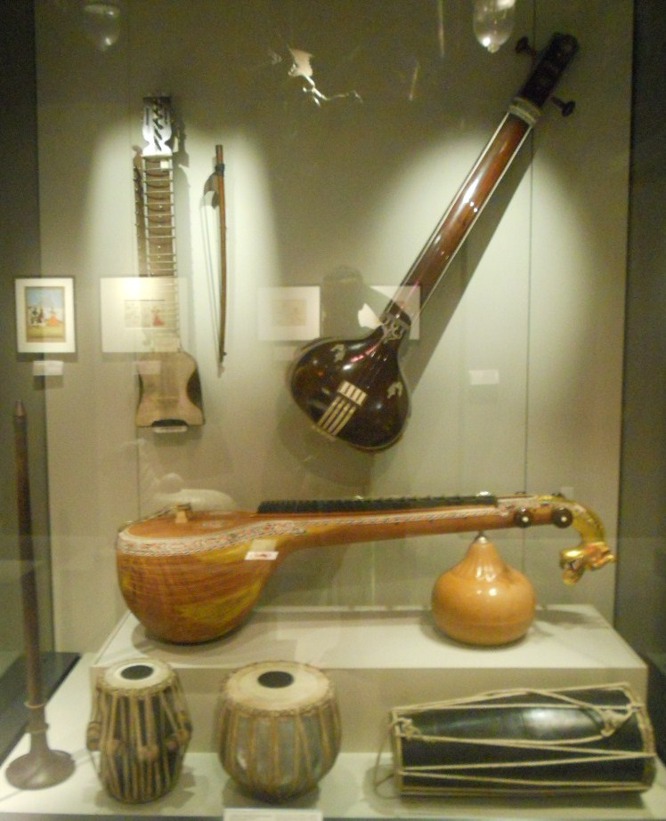 The Pantheon of Indian Musical Instruments